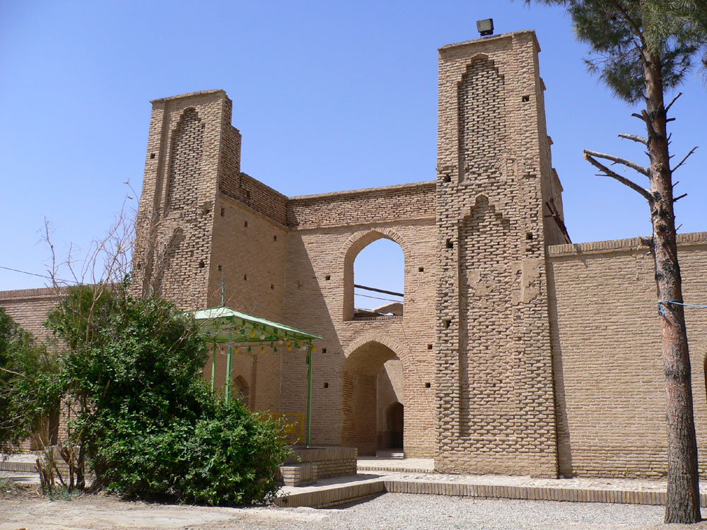 Mausoleum of Ala ud-Daula Simnani, Sufiabad